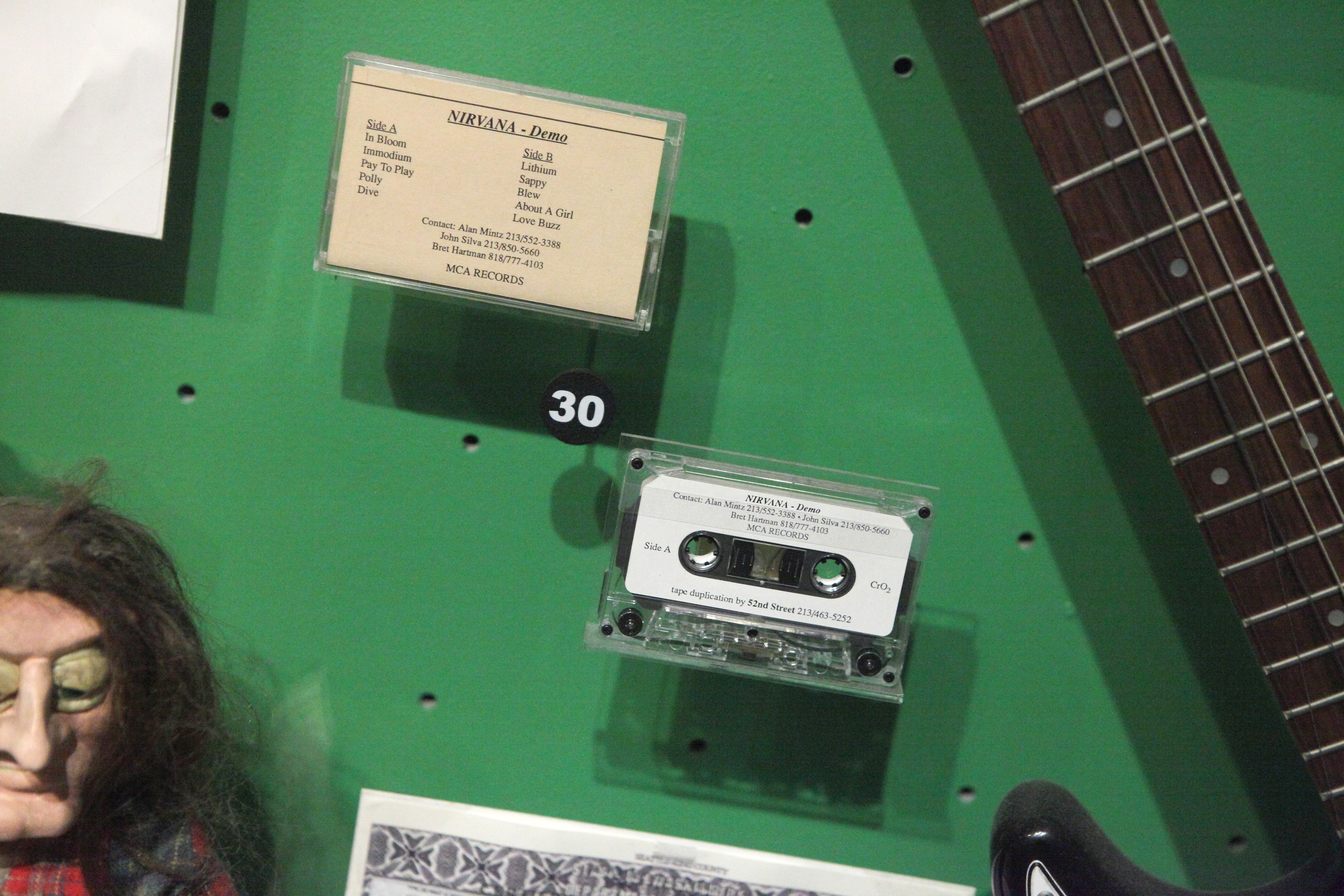 Nirvana demo tape at the Rock and Roll Hall of Fame in Cleveland, Ohio. Flickr Tags: ohio nirvana cleveland cassette rockandrollhalloffame demotape. Flickr Tags: Rock and Roll Hall of Fame Cleveland Ohio. from Flickr album "Rock and Roll Hall of Fame" by Sam Howzit